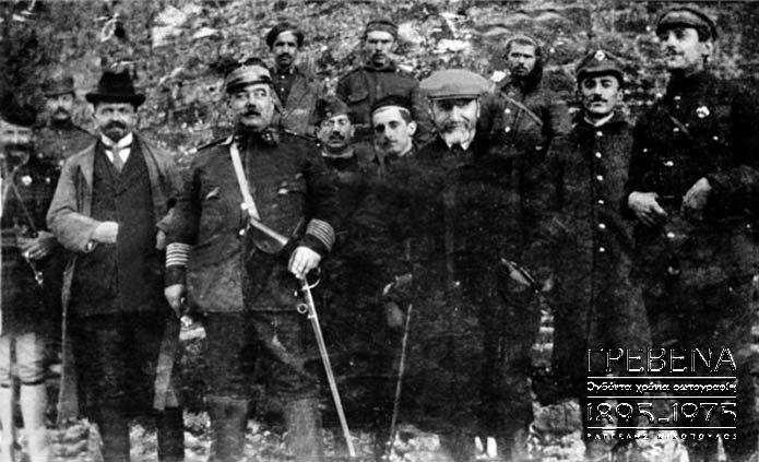 Nikolaos_Stratos_Nikolaos_Kousidis